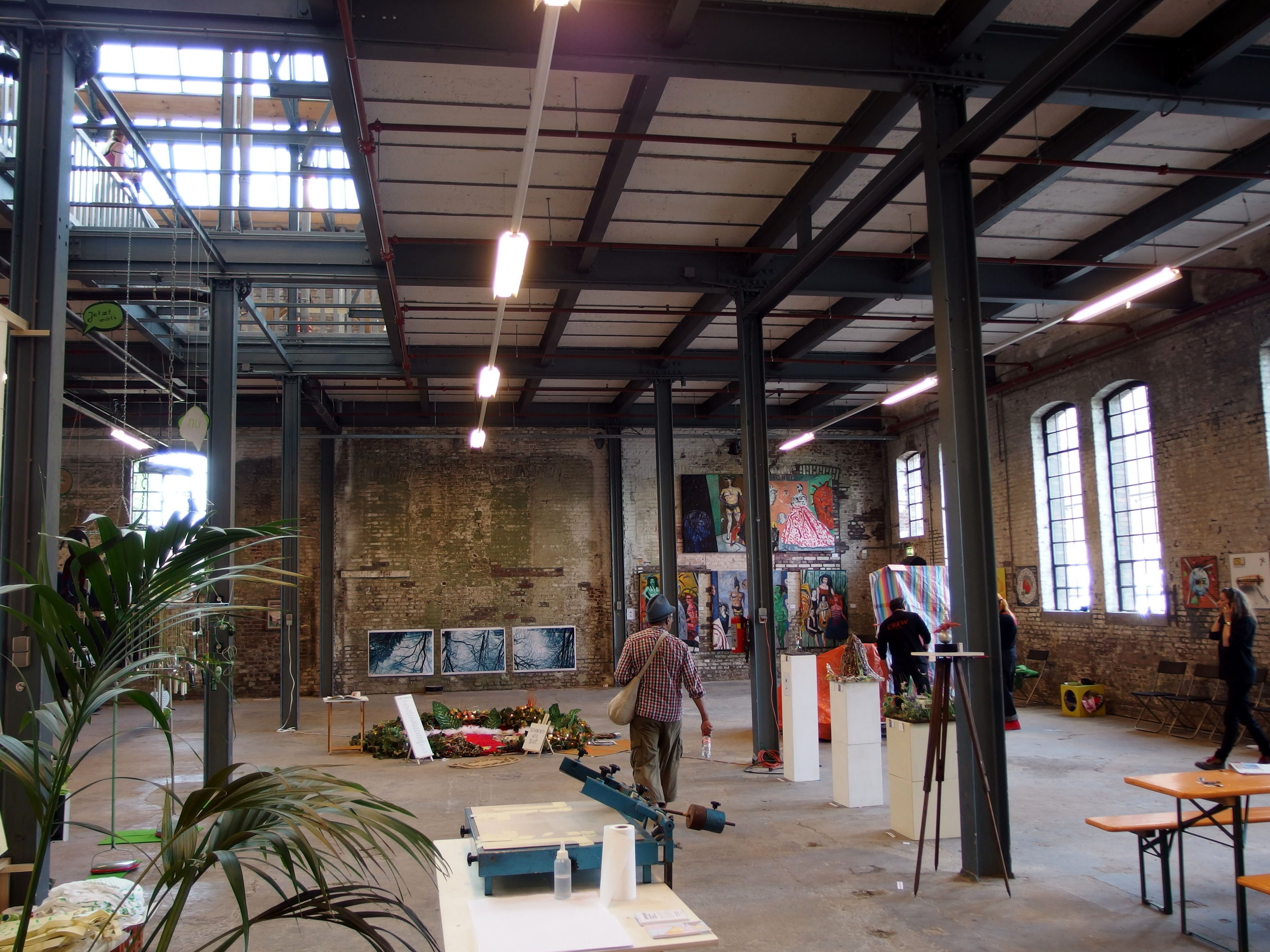 20140525 in Maastricht; Timmerfabriek.